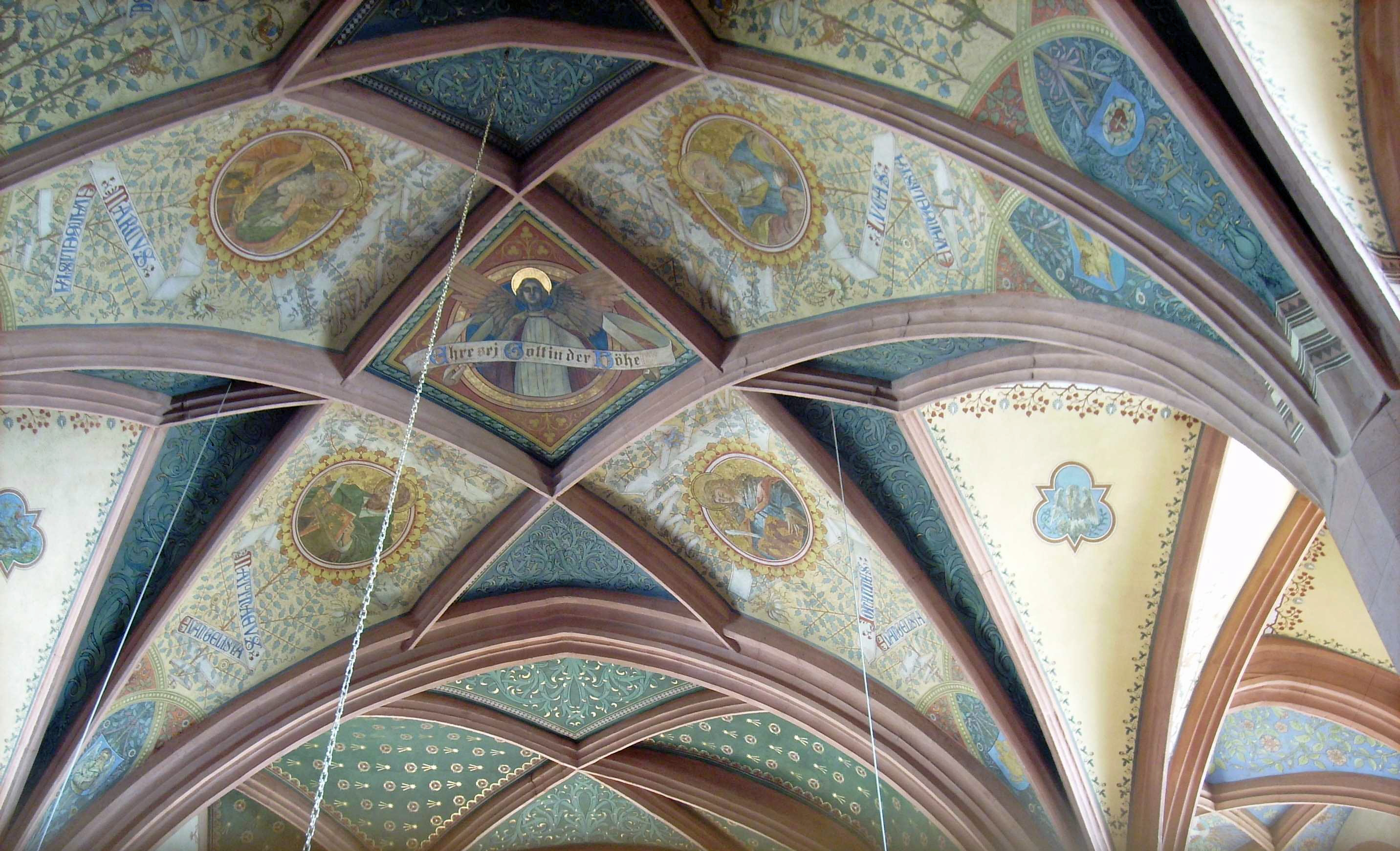 Vaults of St. Peter Church, Rochlitz (Mittelsachsen district, Saxony)